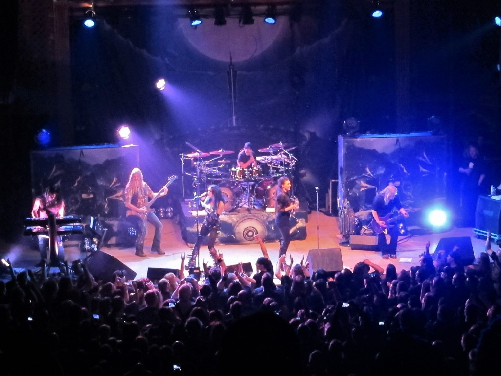 Nightwish performing live in Denver. This was their last show with Anette Olzon.